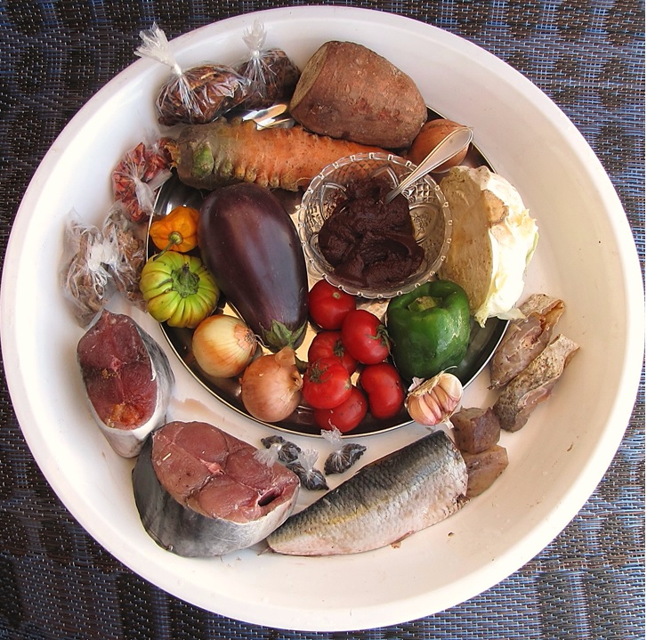 Complete (except oil and rice) fresh, dried and salt-cured ingredients of this rice pilaf with fish dish, also seen as ceebu jen, ceebu meaning rice, jen meaning fish in Wolof. These are the actual quantities of ingredients, exactly as sold in the street markets to cook one complete, typical family/communal-size dinner. In addition to very recognizable common types of fish and vegetables, are the distinctive regional flavorings of African eggplant (Solanum aethiopicum) fermented tamarind seed pods(Tamarindus indica), dried green hibiscus leaves, two cubes of salt-cured 'yet' (a salt-water mollusk, Cymbium marmoratum) and two pieces of 'guedj' (salt-cured fish chunks). The name Thiéboudiène Boukhonk is from Wolof language, spellings vary: thiéboudiène uses the French alphabet spelling, ceebu jen is the same word using the official Senegalese alphabet spelling. Also the names of this popular West African dish and ingredients vary between languages and countries.